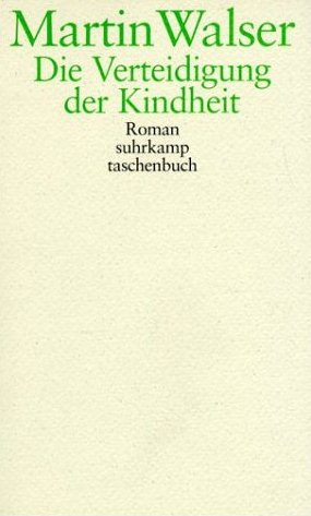 Book cover of Martin Walser "Die Verteidigung der Kindheit" 1991